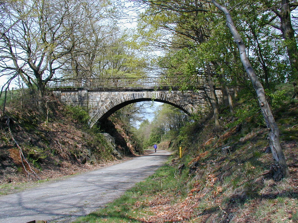 Riepelsiepen Bridge in Sprockhövel, Germany